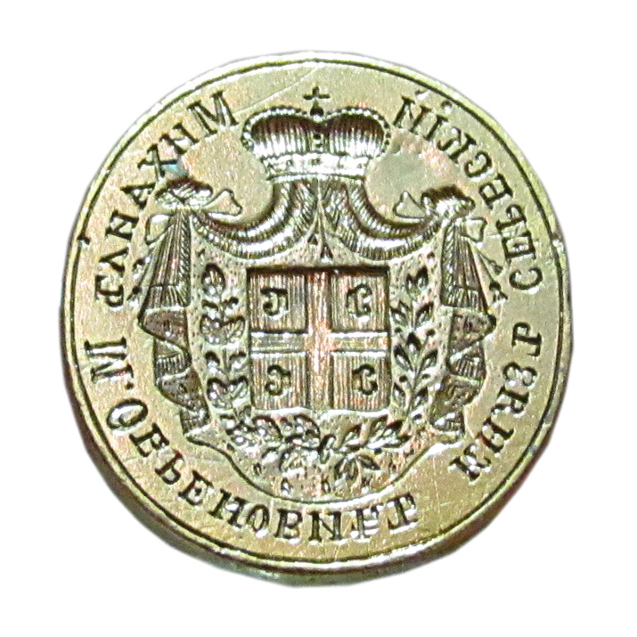 Seal of Mihailo Obrenovic